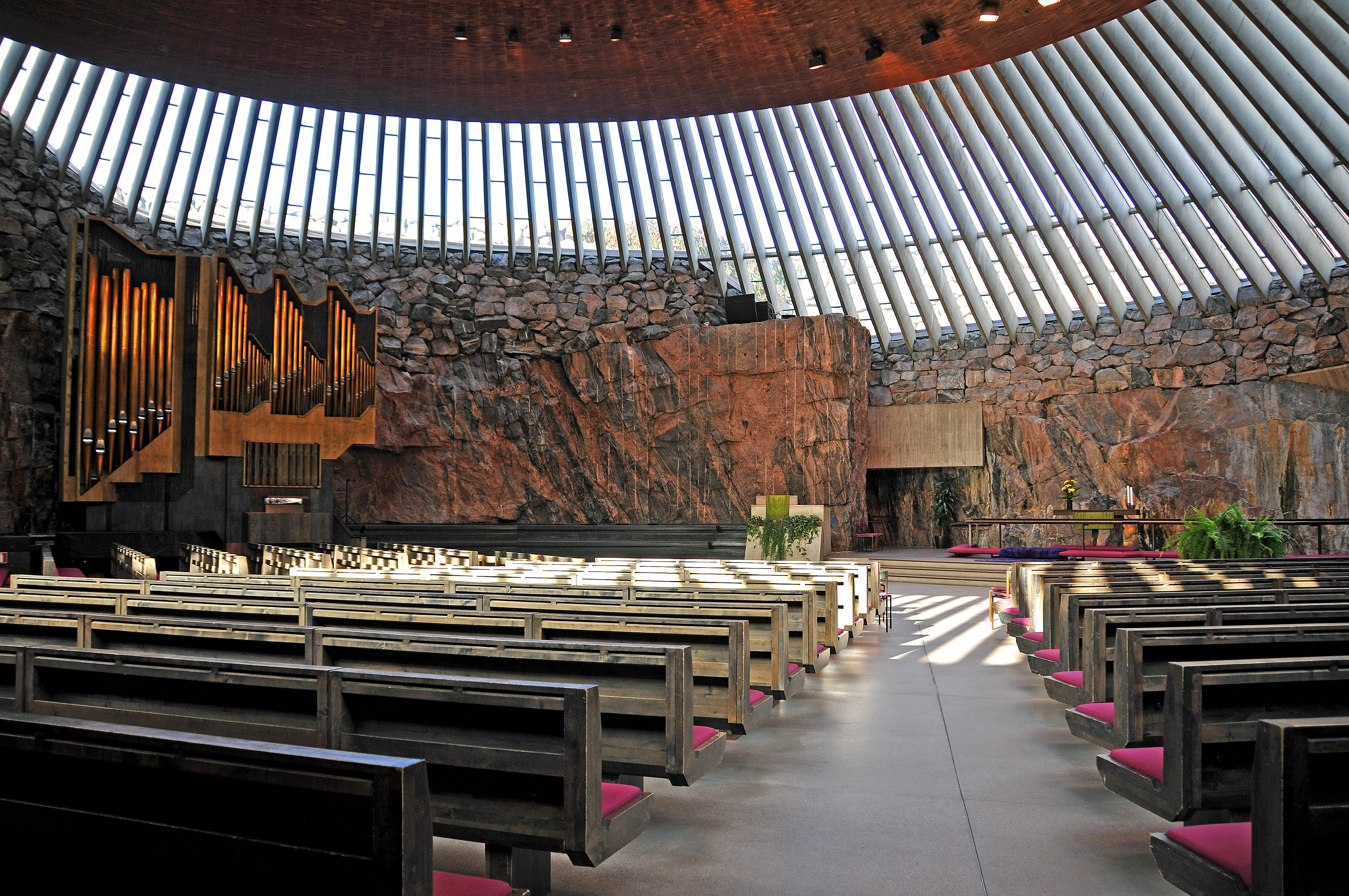 PLEASE, no multi invitations in your comments. Thanks. I AM POSTING MANY DO NOT FEEL YOU HAVE TO COMMENT ON ALL - JUST ENJOY. The Temppeliaukio church is one of the most popular tourist attractions in the city; half a million people visit it annually. The stone-hewn church is located in the Töölö neighborhood in the heart of Helsinki . Maintaining the original character of the square is the fundamental concept behind the building. The idiosyncratic choice of form has made it a favorite with professionals and aficionados of architecture. The interior was excavated and built into the rock, but is bathed in natural light entering through the glazed dome. The church is used frequently as a concert venue due to its excellent acoustics. The acoustic quality is ensured by the rough, virtually unworked, rock surfaces. Leaving the interior surfaces of the church exposed was not in the original plans for the church. The back wall of the altar is a majestic rock wall, originally created by a withdrawing glacier.